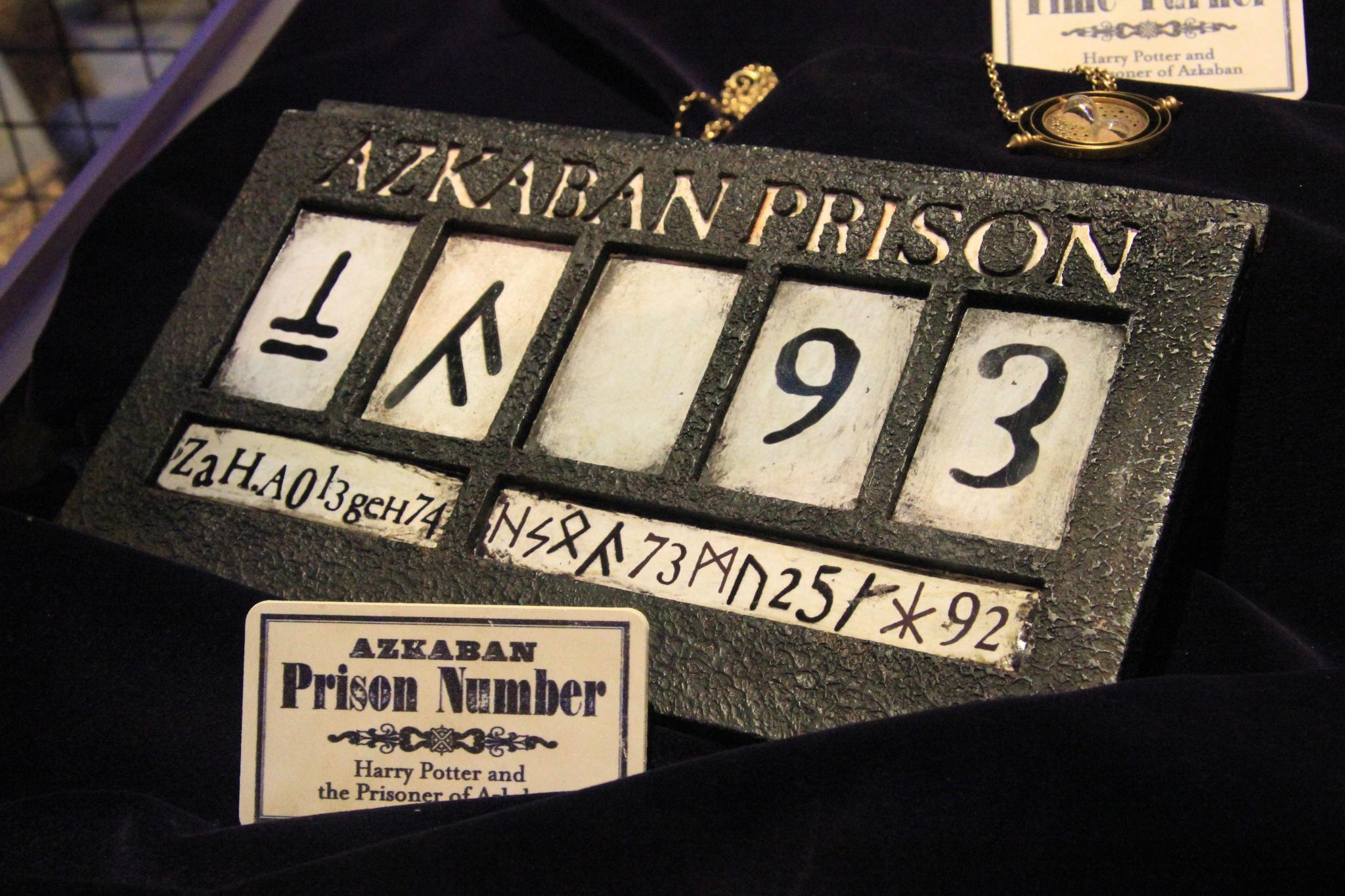 Warner Bros. Studio Tour London: The Making of Harry Potter.